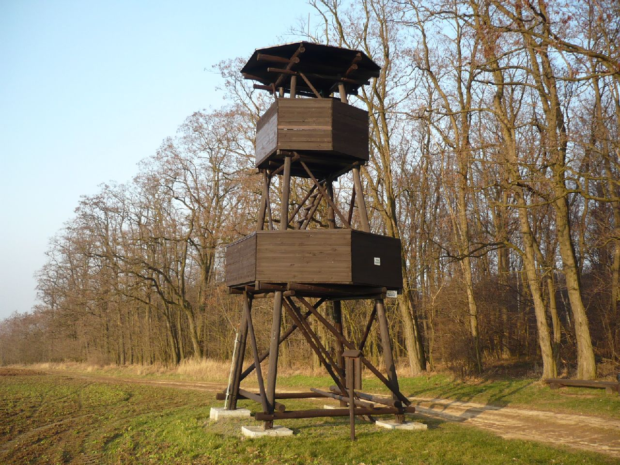 Observation tower Vitcice - near Nemcice nad Hanou